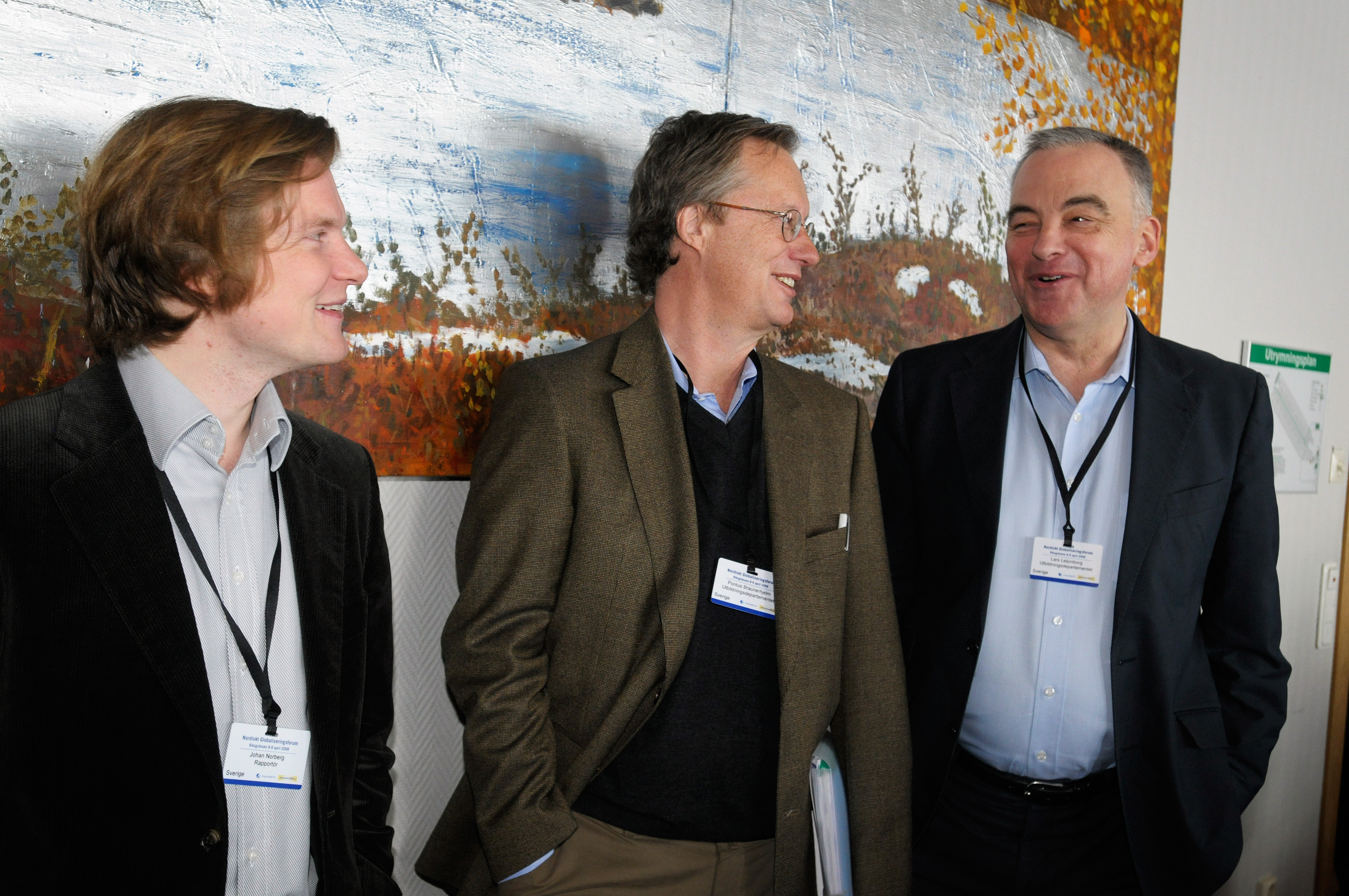 Globalization expert Johan Norberg, Pontus Braunerhjelm from the Swedish Ministry of Education and Sweden's Minister of Education Lars Leijonborg at the globalization meeting in Riksgränsen 2008-04-08